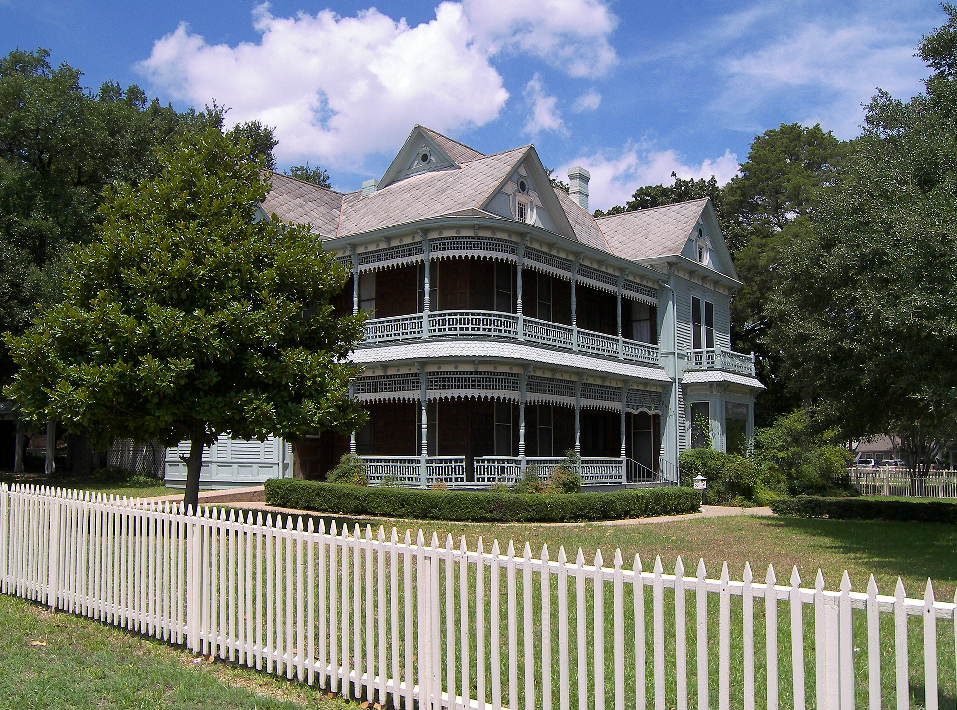 The Dr. Nathan and Lula Cass House located in Cameron, Texas, United States was built in 1895. The house exhibits Queen Anne and Eastlake style elements. It was designated a Recorded Texas Historic Landmark in 1990 and listed on the National Register of Historic Places on February 8, 1991.